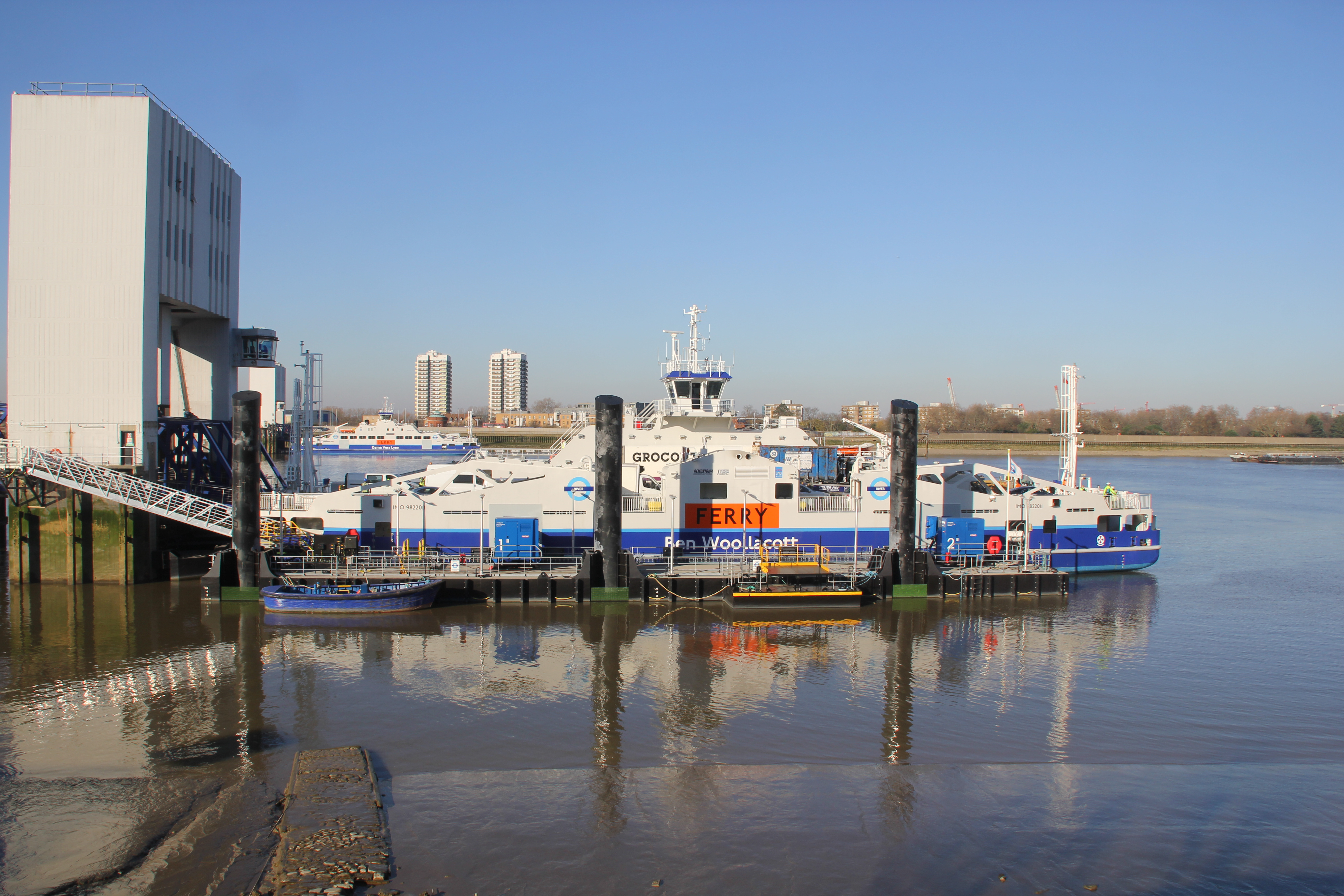 Woolwich Ferry vessel named Ben Woollacott on River Thames in London